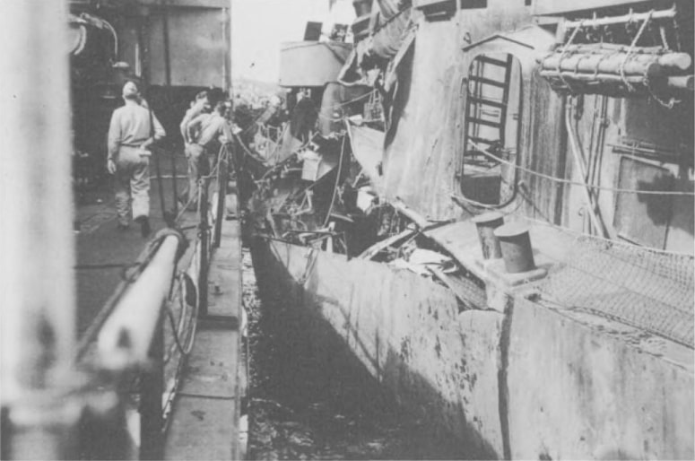 A view of the starboard side amidships showing damage to hull, deck, and superstructure in the vicinity of the forward fireroom